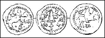 Ferri III - Deniers